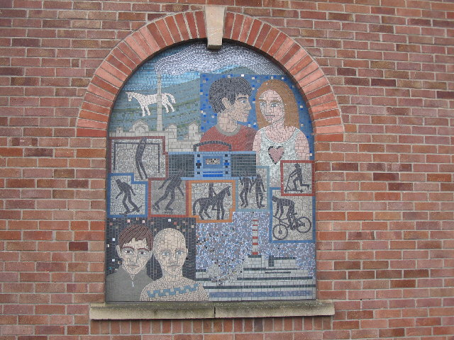 Mosaic at Coopers store. This mosaic on the eastern wall of Coopers store in Edward Street was produced by the pupils of Matravers School to commemorate the links between the youth of Westbury and the Chernobyl area. Young people from the region affected by the Chernobyl explosion still come to Westbury for holiday and respite breaks.